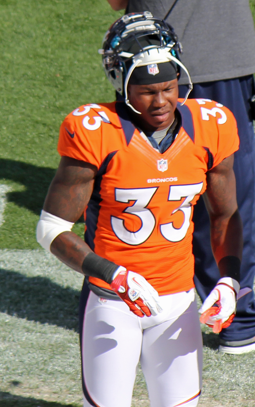 Duke Ihenacho, safety for Denver Broncos